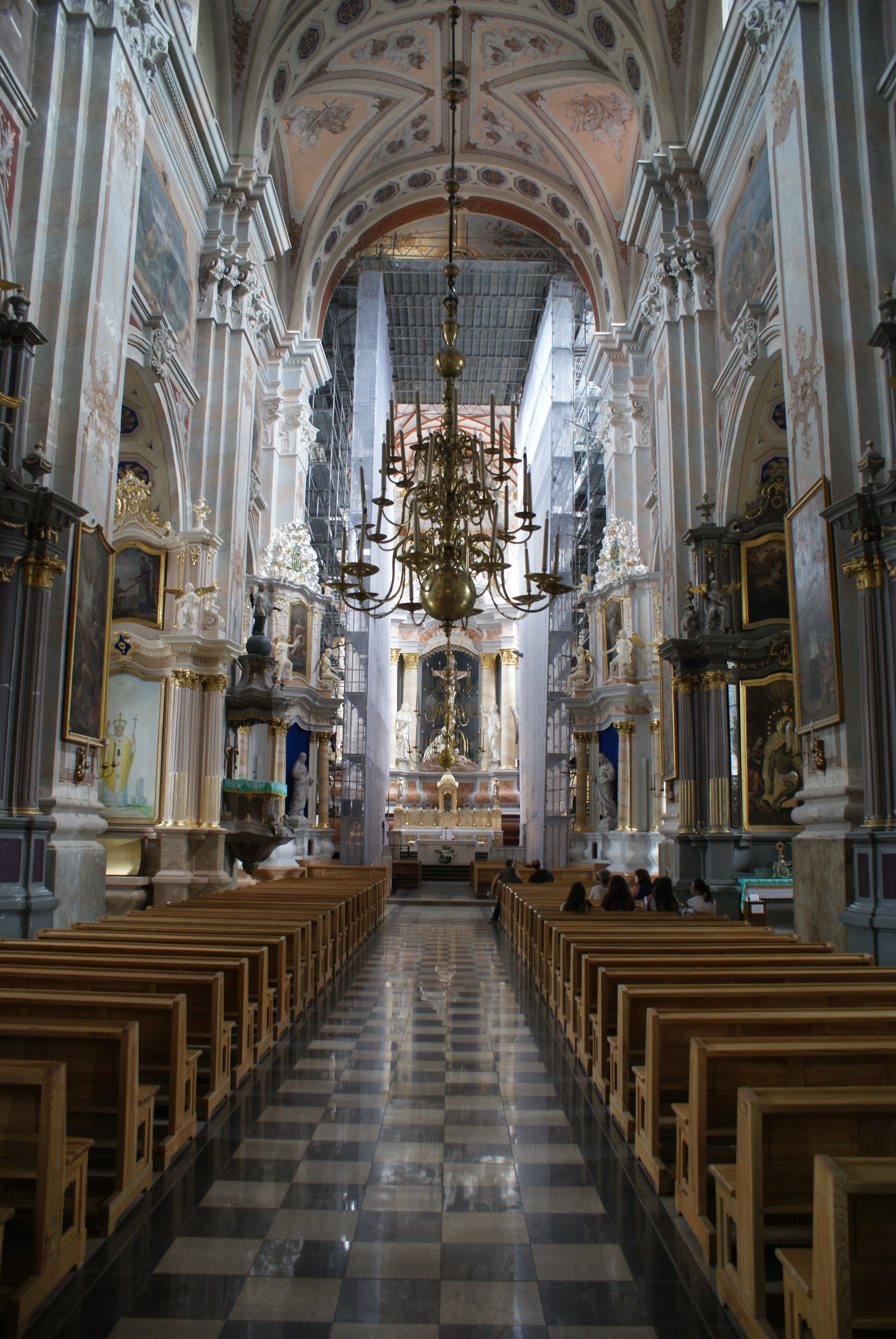 Kaunas Cathedral